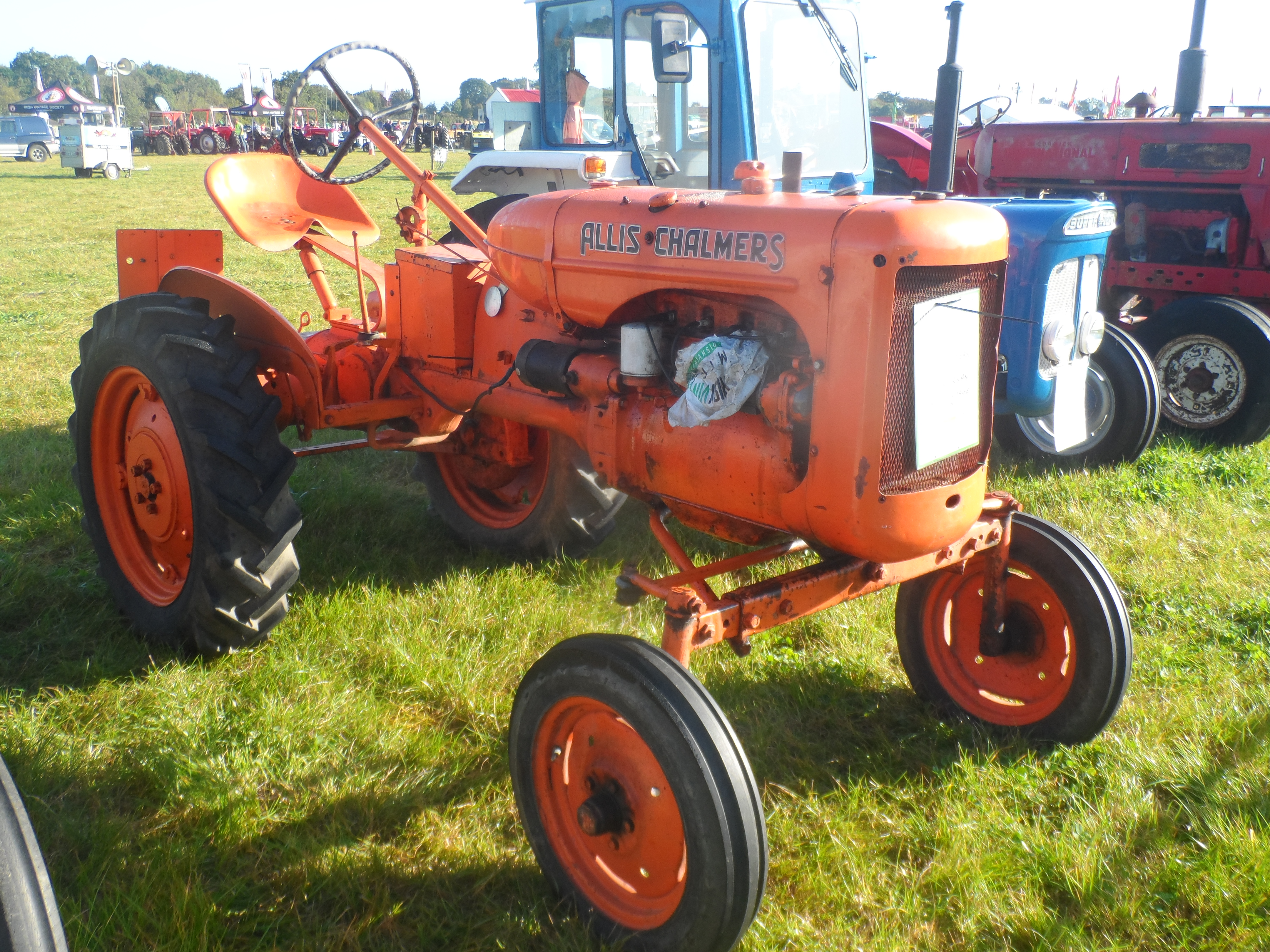 Orange tractor